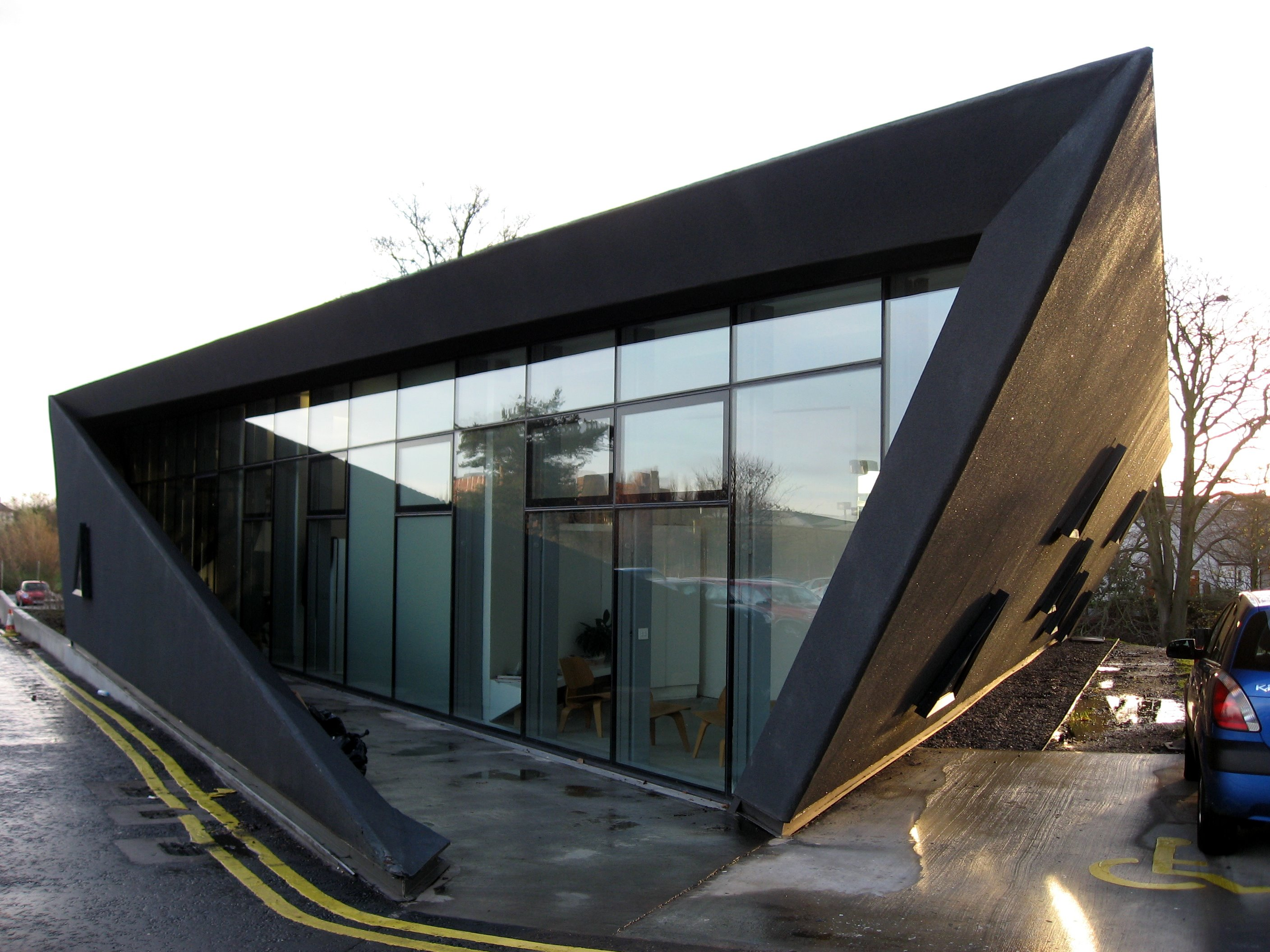 Maggie's Centre, Kirkcaldy; architect Zaha Hadid